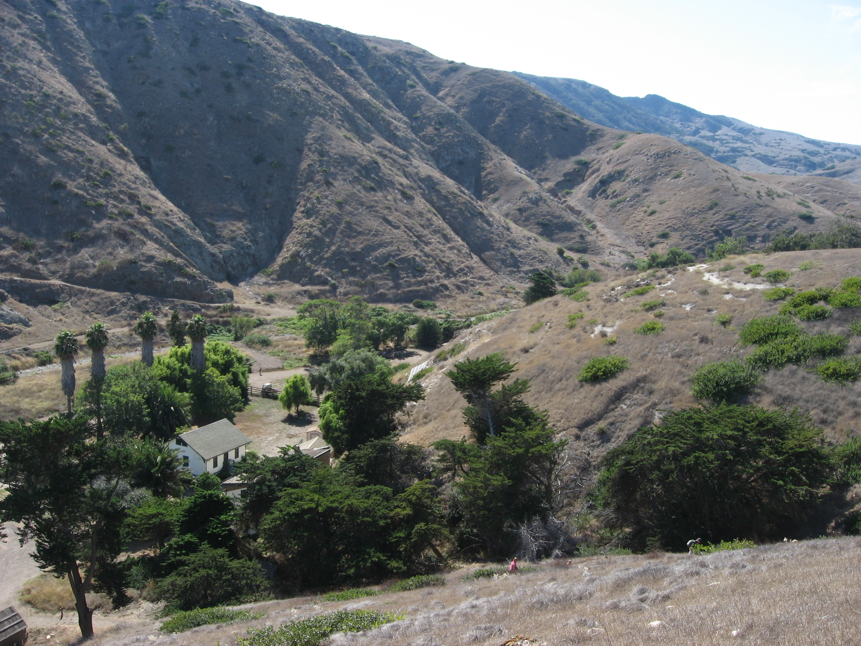 Scorpion Ranch, Santa Cruz Island, Channel Islands National Park